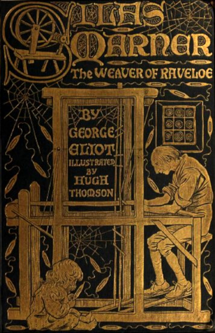 Cover of the book Silas Marner, written by George Eliot, illustrated by Hugh Thomson